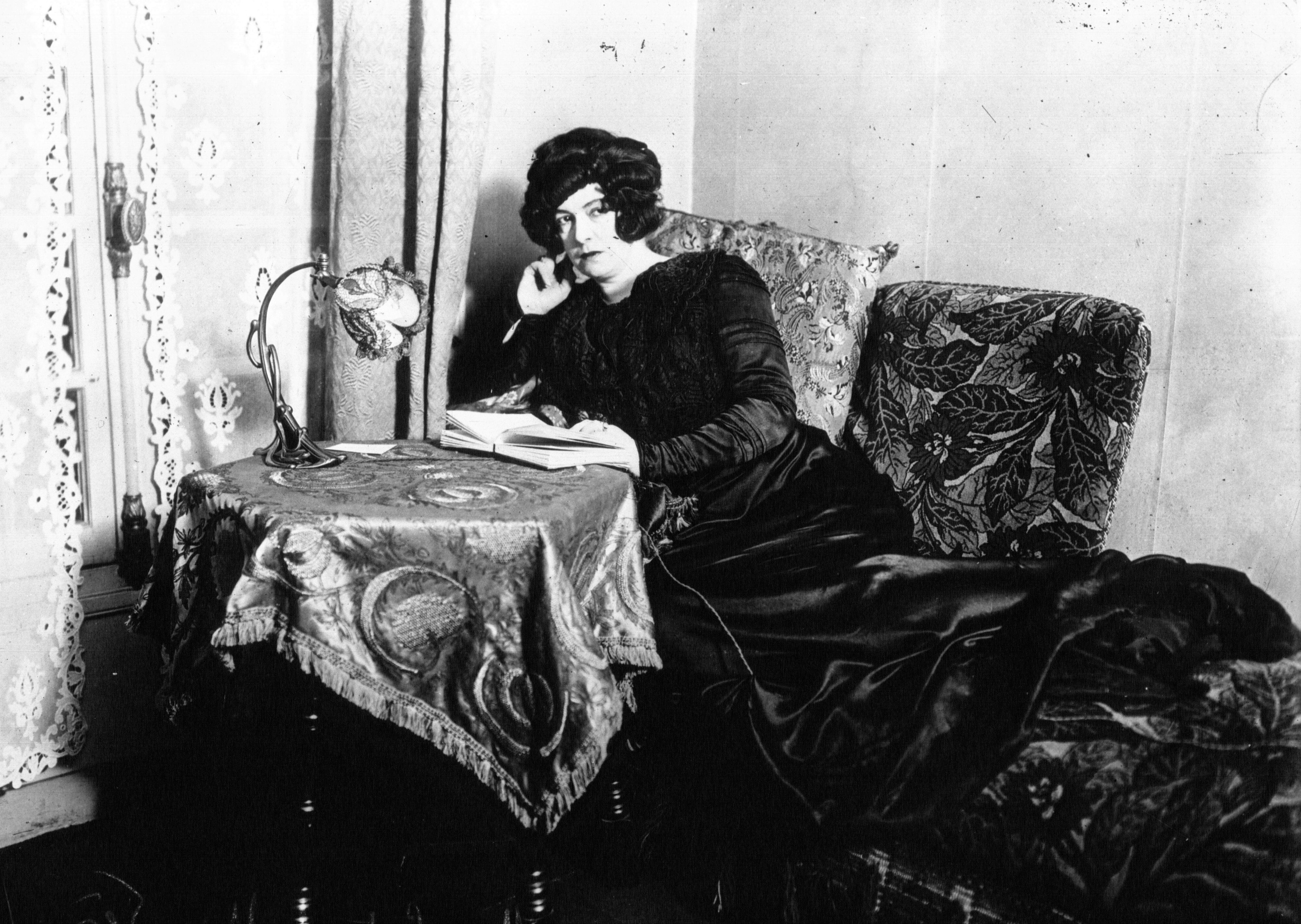 French poetess Jane Catulle-Mendès (Jeanne Nette, 1867-1955).